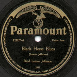 Paramount Records label, 1926, "Black Horse Blues" by Blind Lemon Jefferson. Scanned by Infrogmation (talk) from original in own collection. Mechanical reproduction of label published in 1920s with no notice of copyright; public domain by US law.